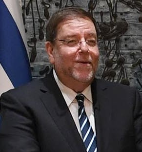 Ilan Ben-Dov. the President of Israel, Reuven Rivlin, at a conference of heads of Israeli embassies. He referred to the expected transit of the US Embassy to Jerusalem. Monday, 22 January 2018. Photo credit: Mark Neyman / GPO.